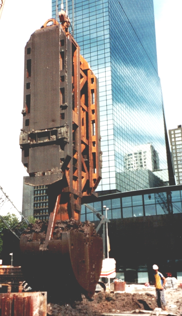 Equipment for slurrywalls, Central station Rotterdam Netherlands